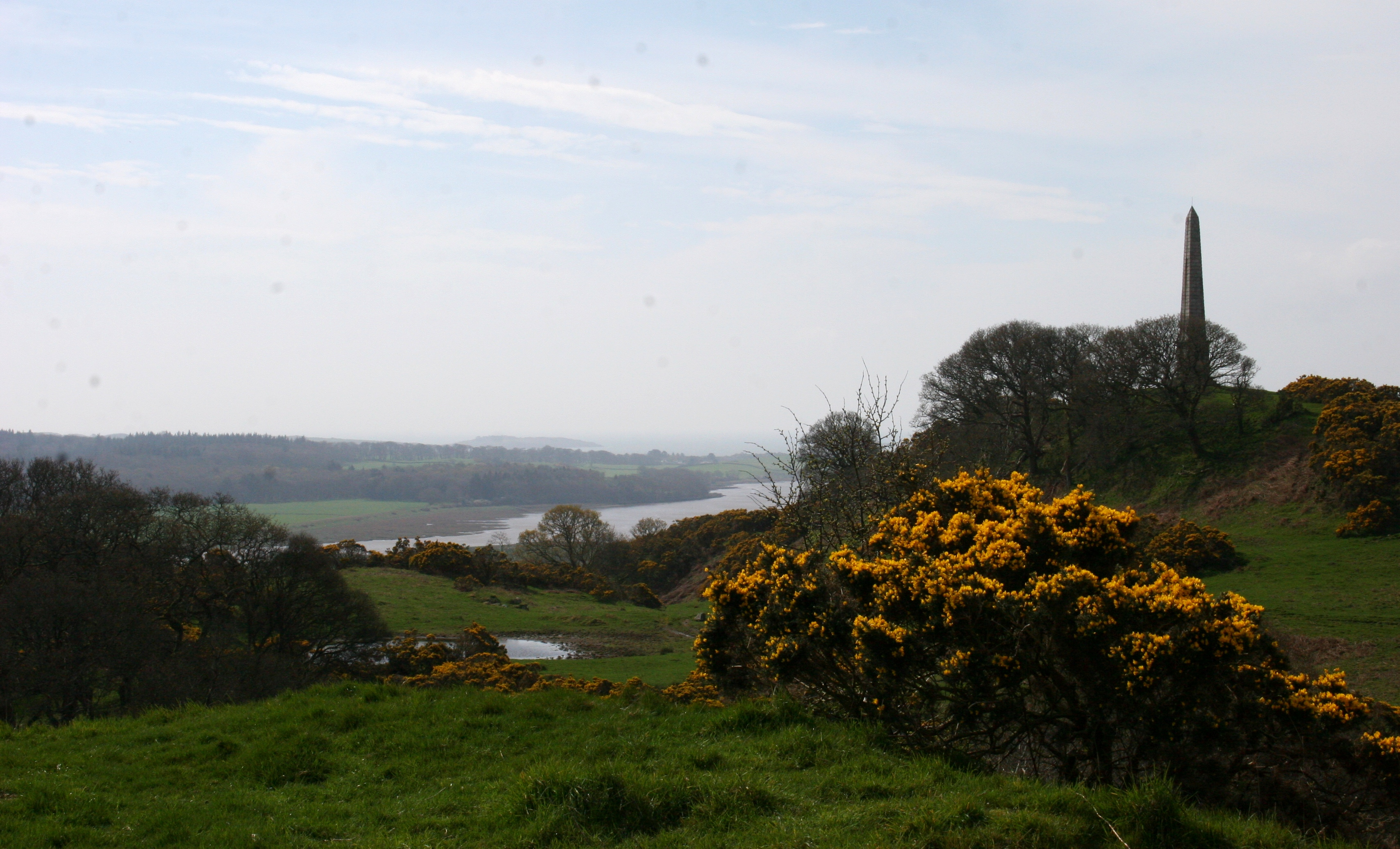 Rutherford's Monument, Anworth